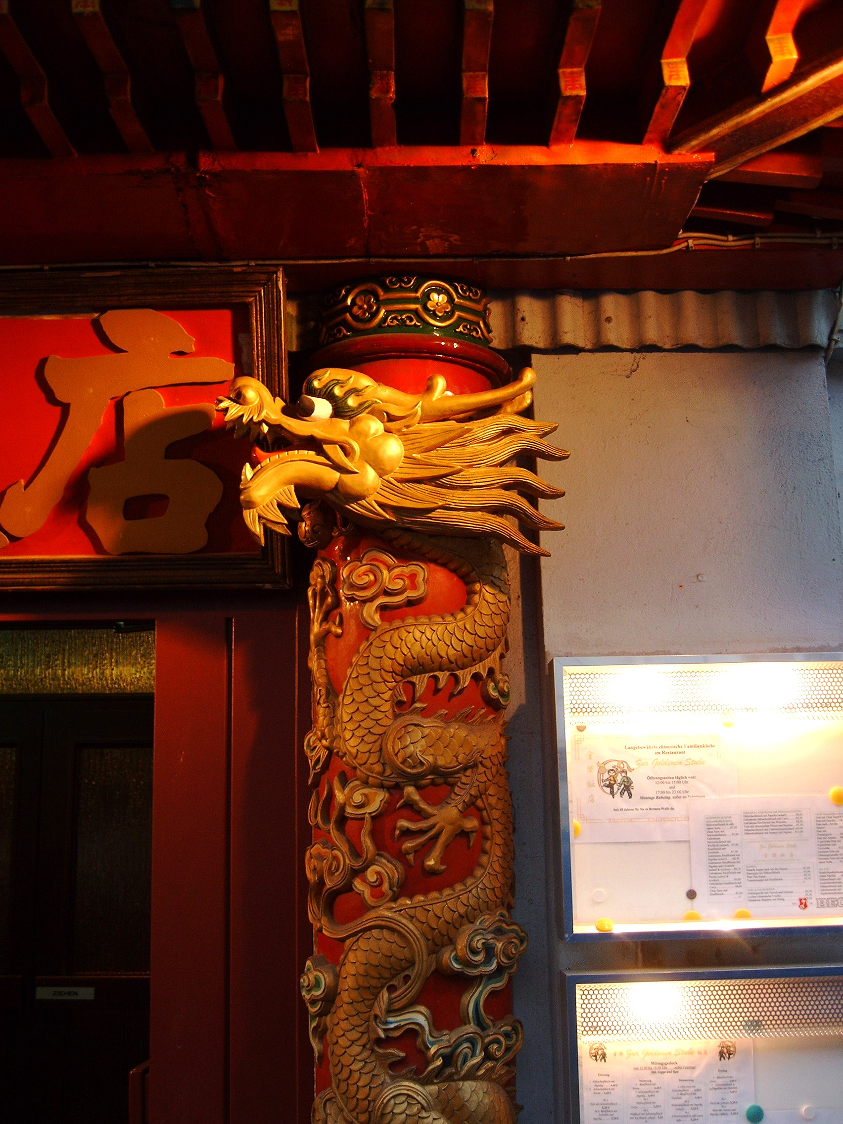 Chines Restaurants in Vegesacker Bremen, Germany Building Structure in Vegesacker str. - Walle, Bremen City in Germany.